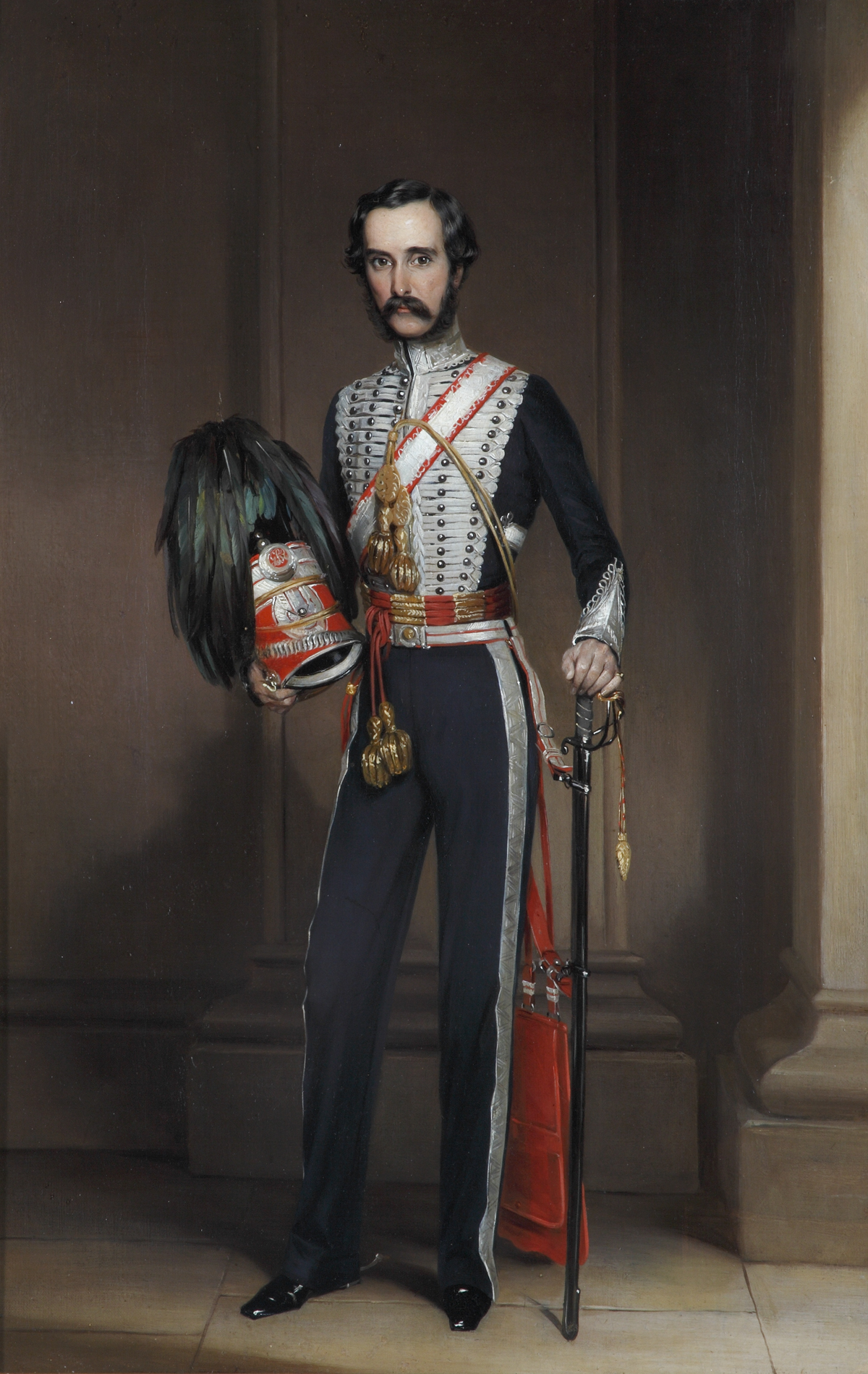 Madras Governor's Bodyguard. Painted c.1848 when he was a Major